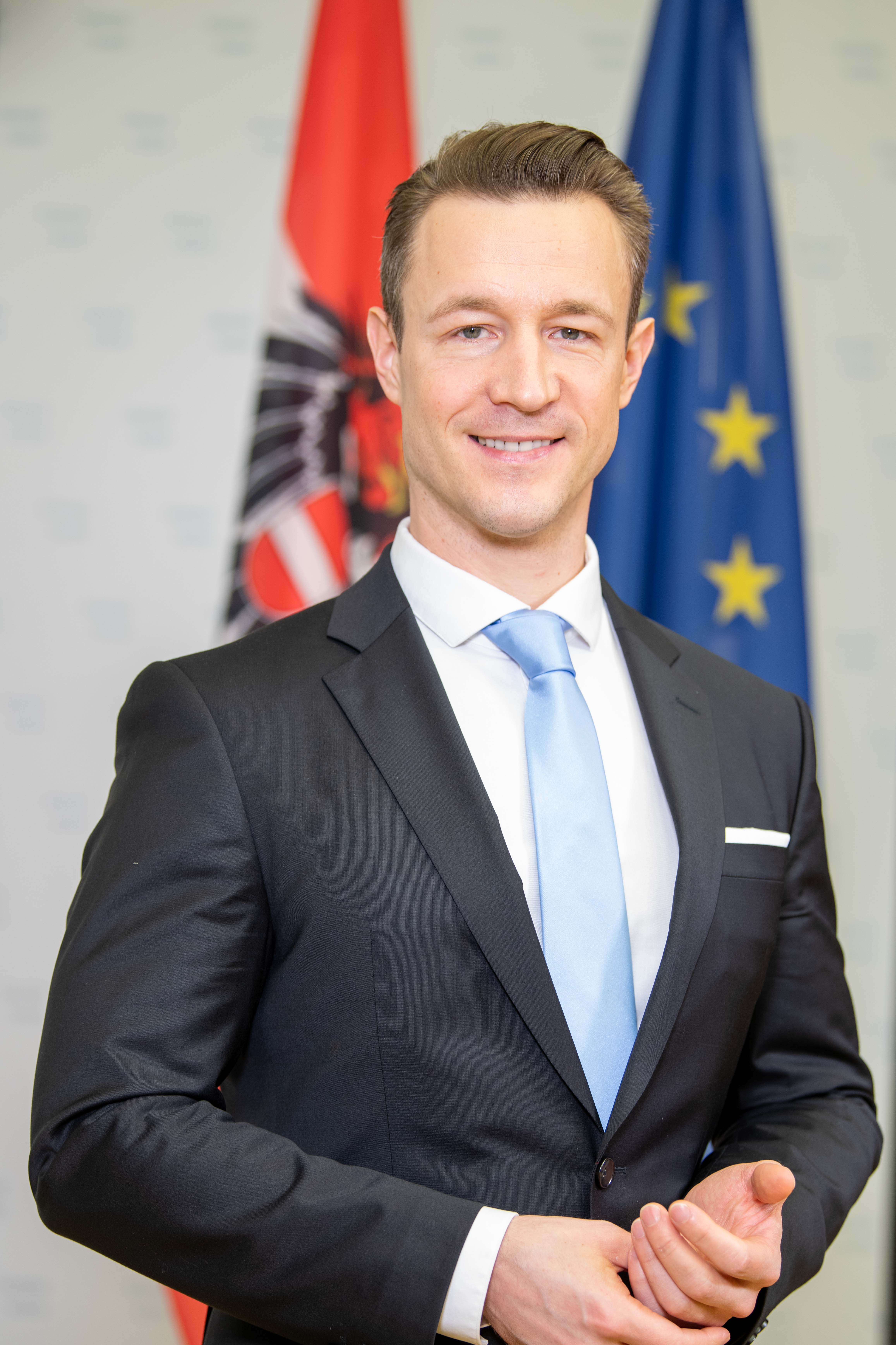 Fotocredit: BMF/Wilke